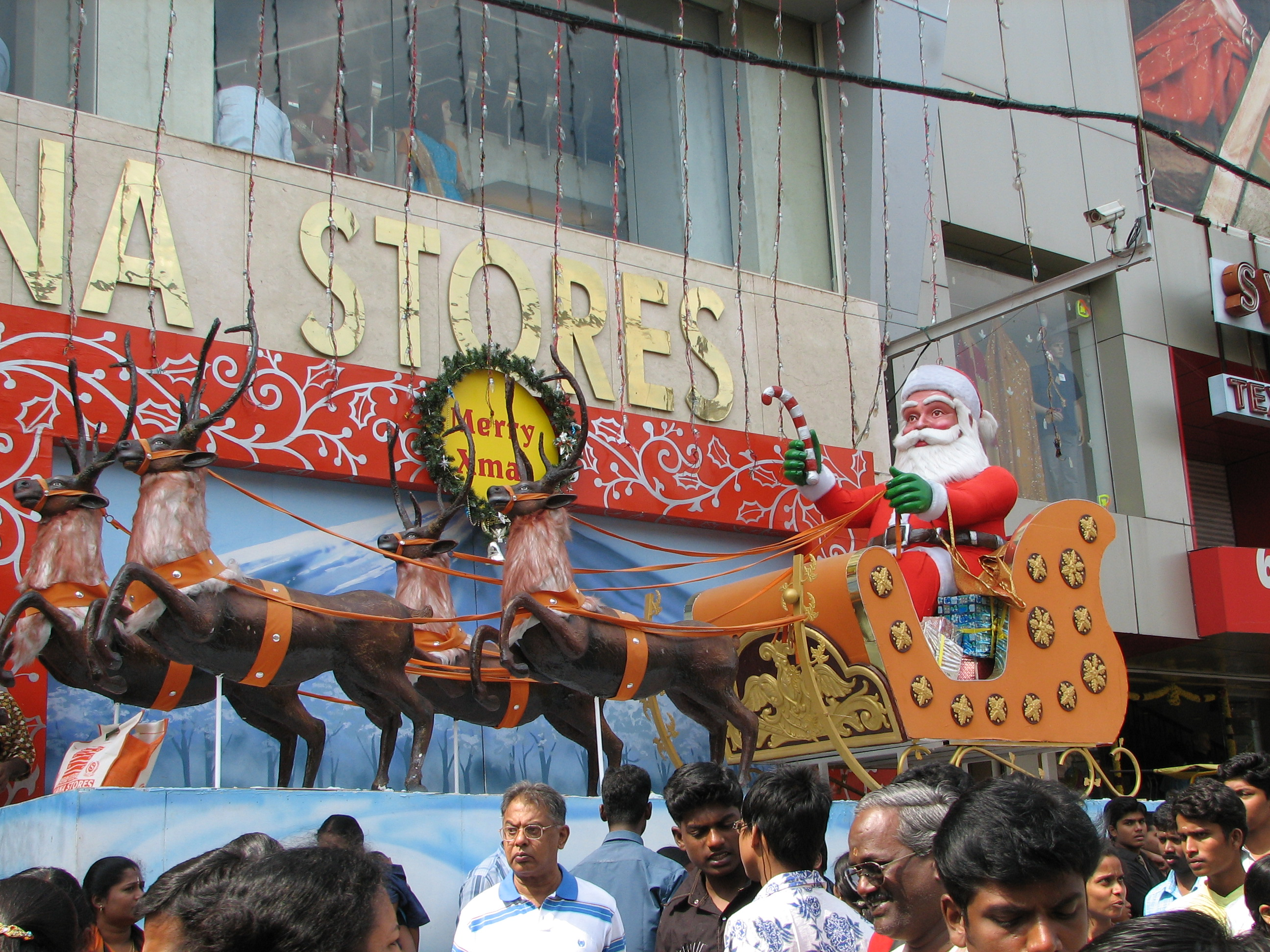 A touch of Christmas in Chennai. Santa comes to India after all. If only I had a chimney...